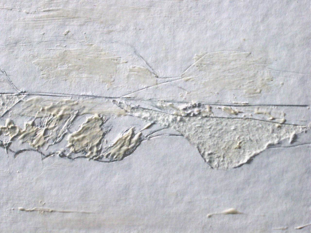 Collography - the plate (paper)